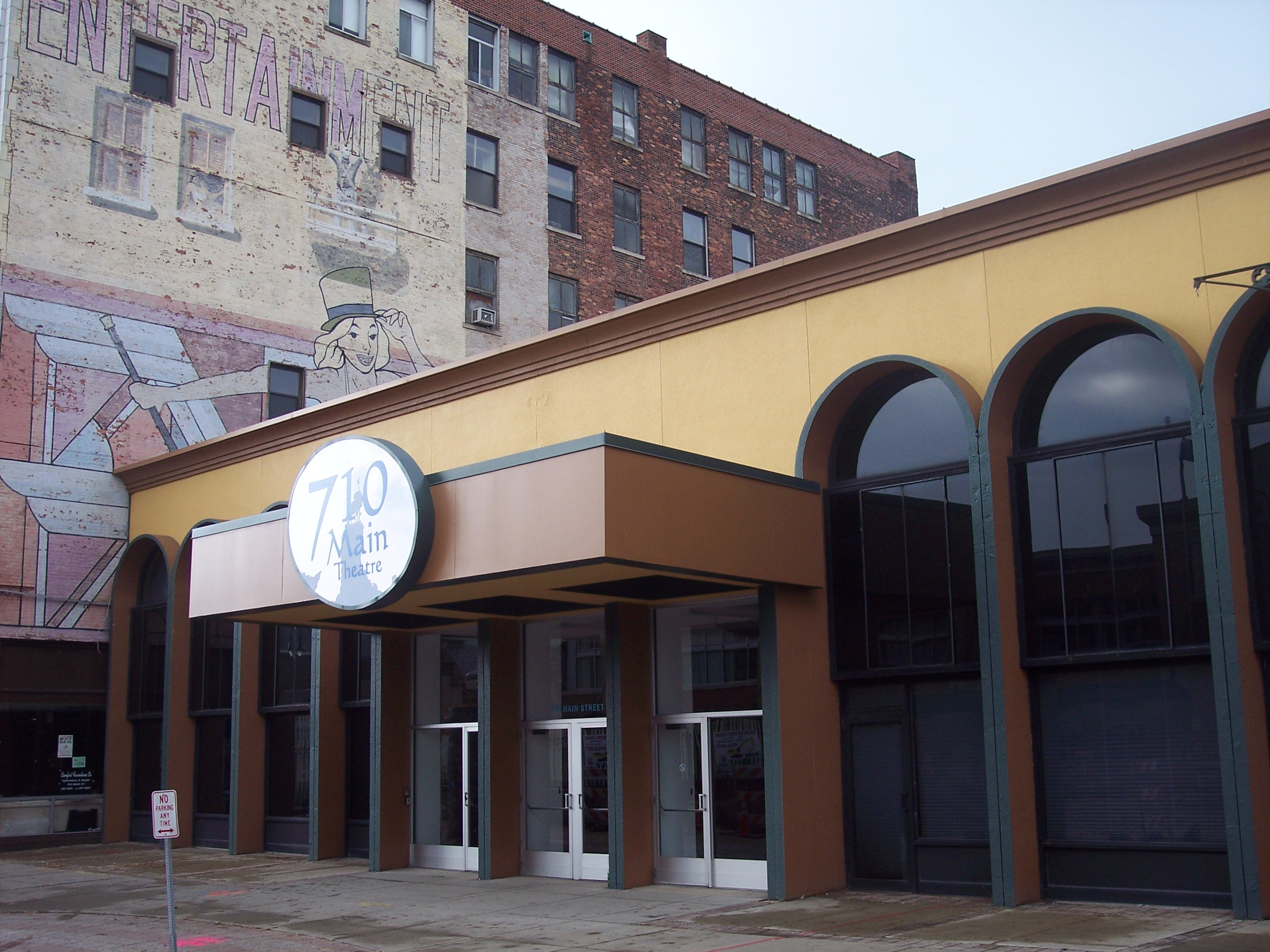 710 Main Street (formerly Studio Arena Theatre), Buffalo, New York